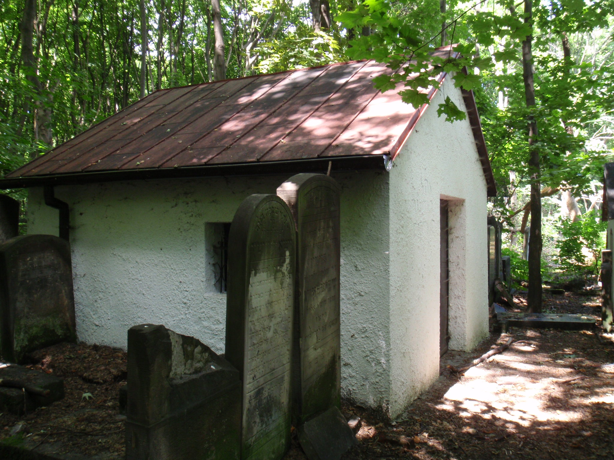 Ohel of Stryków tzadiks